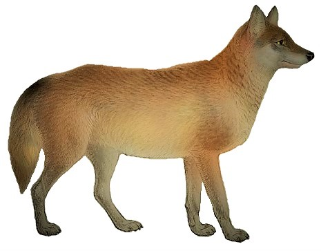 Cascade Mountain wolf illustration, modified from Himalayan wolf from File:Dogs, jackals, wolves, and foxes (Plate III).jpg